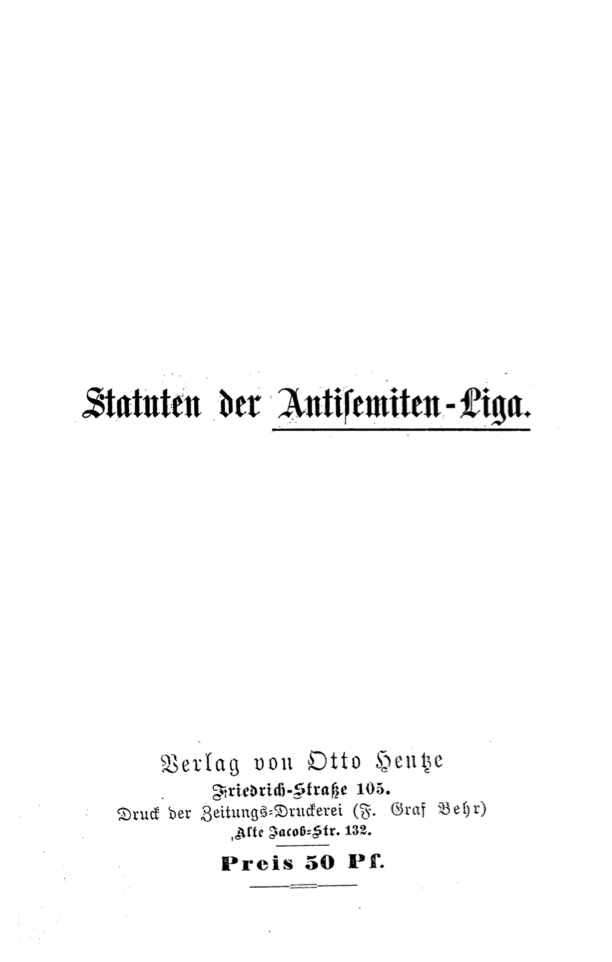 Statue of the Anti-Semitic League (1879)